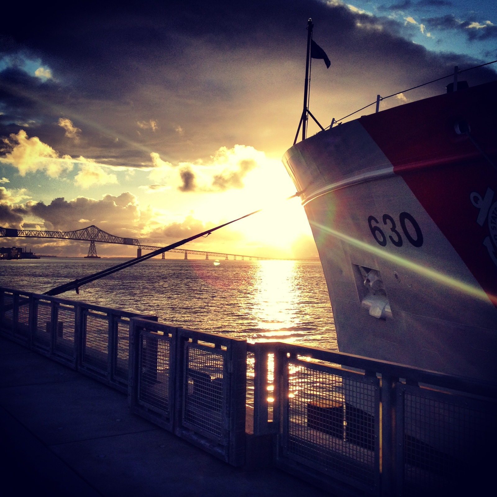 The sun sets over the Astoria-Megler Memorial Bridge, as seen from ALERT's pier in downtown Astoria, OR.